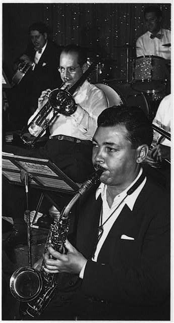 Willie Smith (saxophon player) (Photograph by William P. Gottlieb)